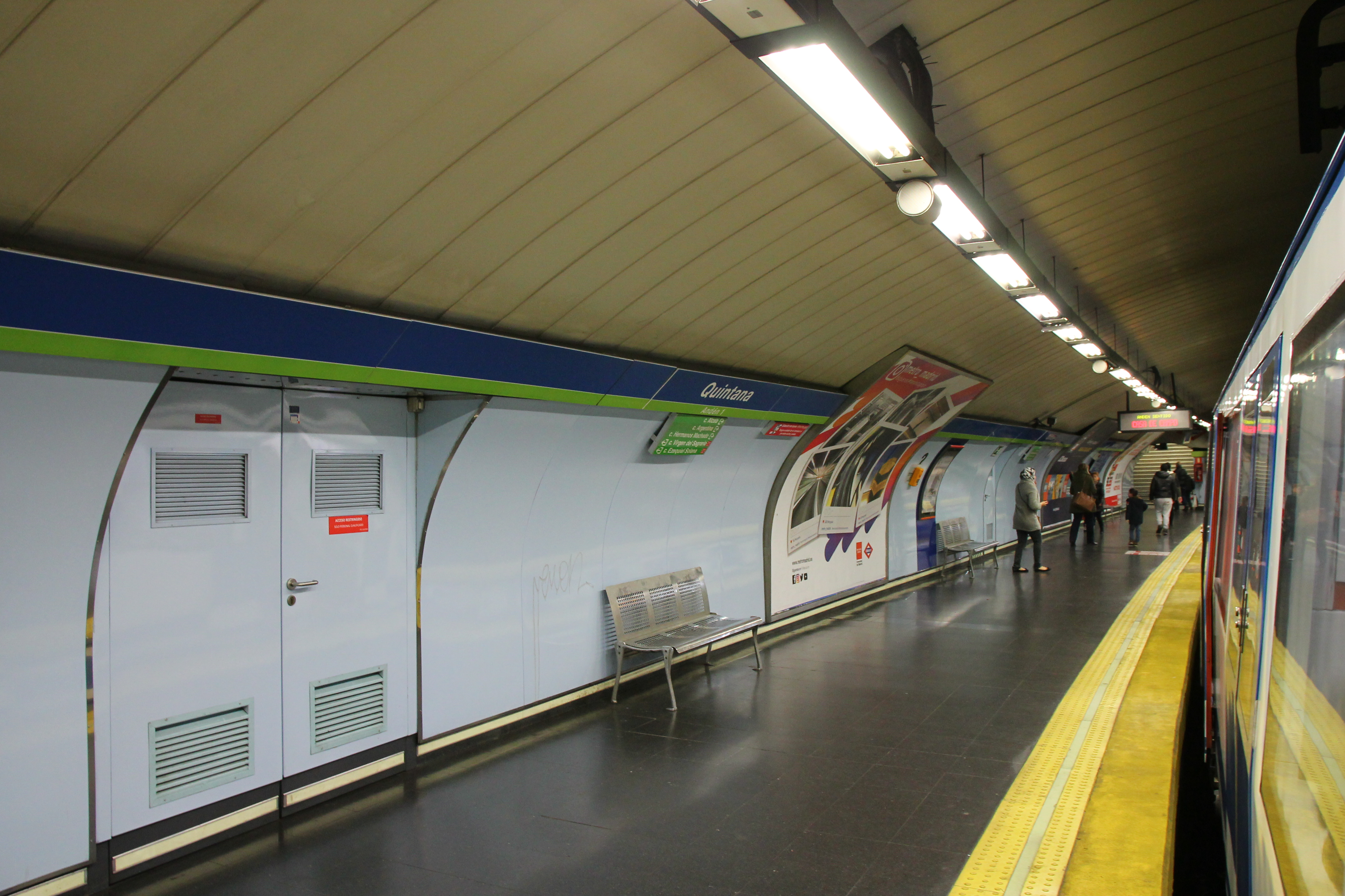 Estación de Quintana